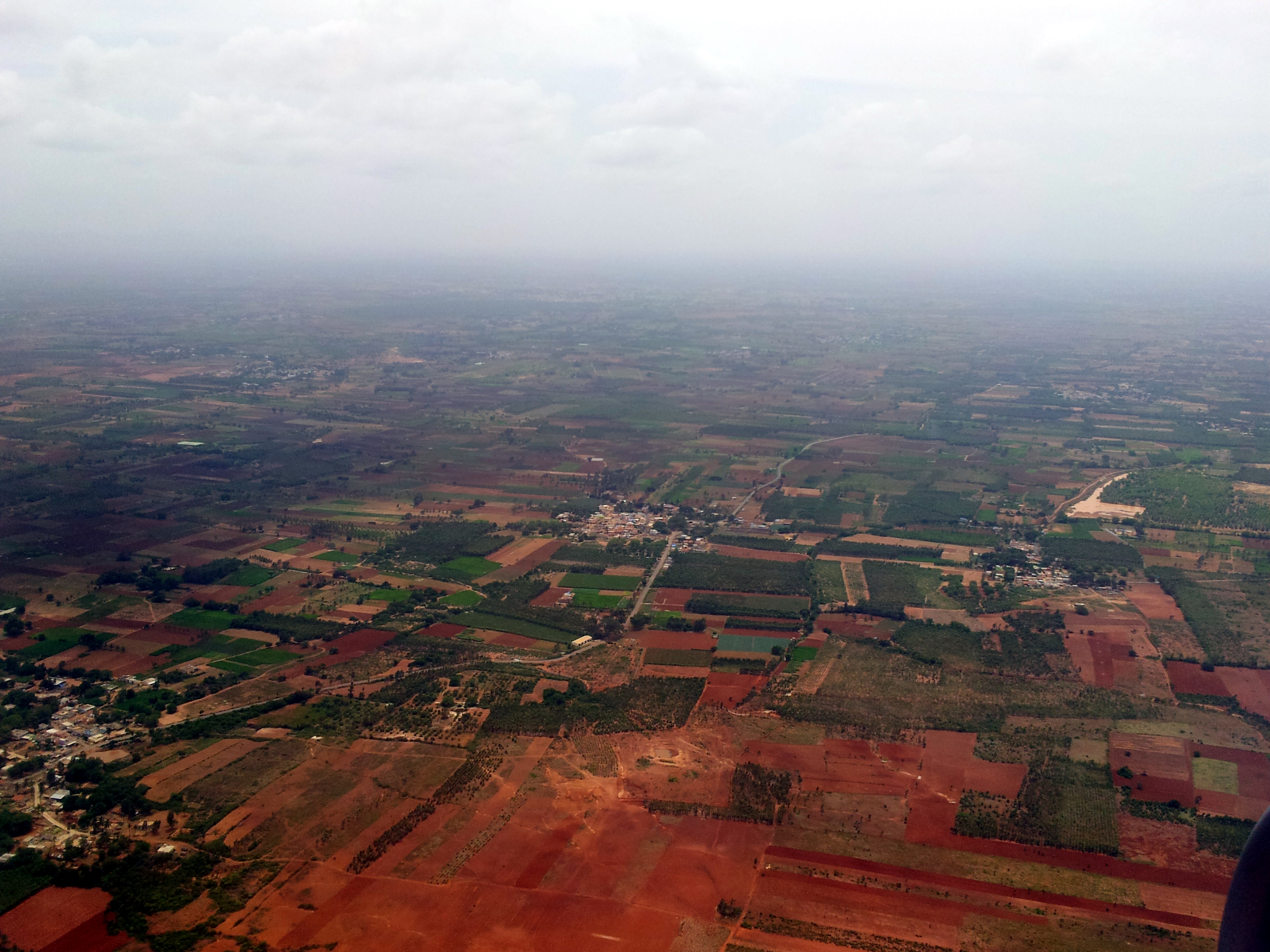 Sky view of Devanahalli Airport area in Bangalore